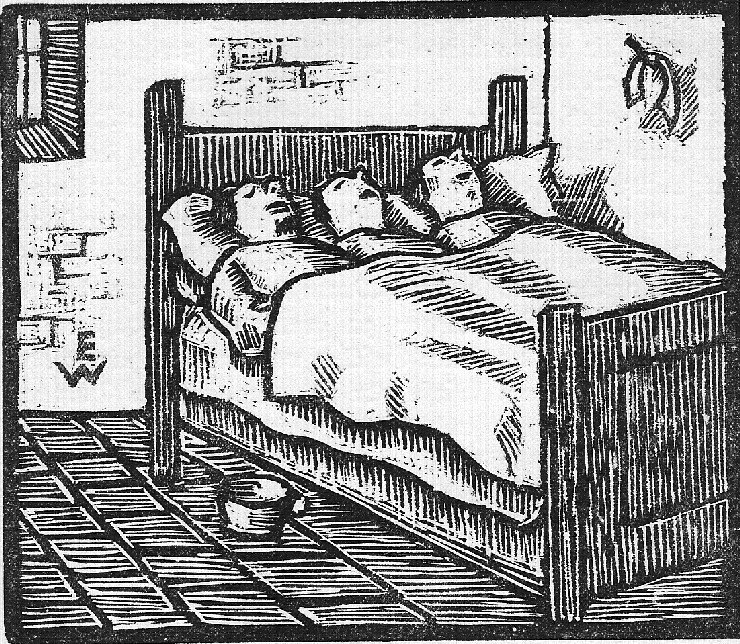 The three sharing one bed